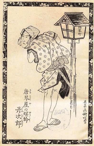 Illustrated Tanjiro from "Shunshoku Umegonomi"written by Tamenaga Shunsui in 1832 - 1833, Japan